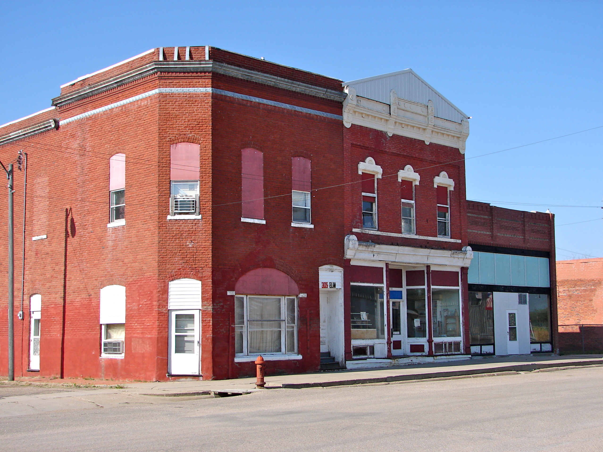 Clem's Opera House on the NRHP since September 28, 1988. At Main (now known as Elm) and Post Sts., Gresham, Nebraska. I don't believe the building on the corner is part of the "Opera House", rather it is the building with the pitched roof (which is fairly new). A resident said that dances were held in the Opera House into the 1970s.